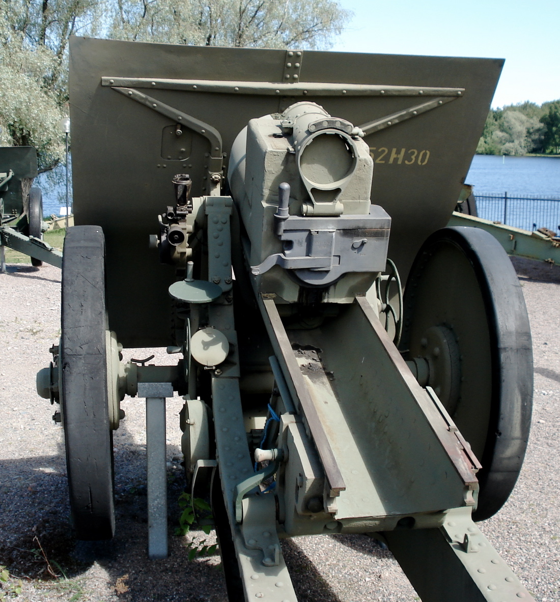 Soviet 152-mm gun M1910/30 howitzer, displayed in Hämeenlinna Artillery Museum. The Finns captured this gun in 1941-1944. It is a quite rare weapon, manufactured in 1934. Photo taken on June 18, 2006. Source: Photo by me, User:Balcer.